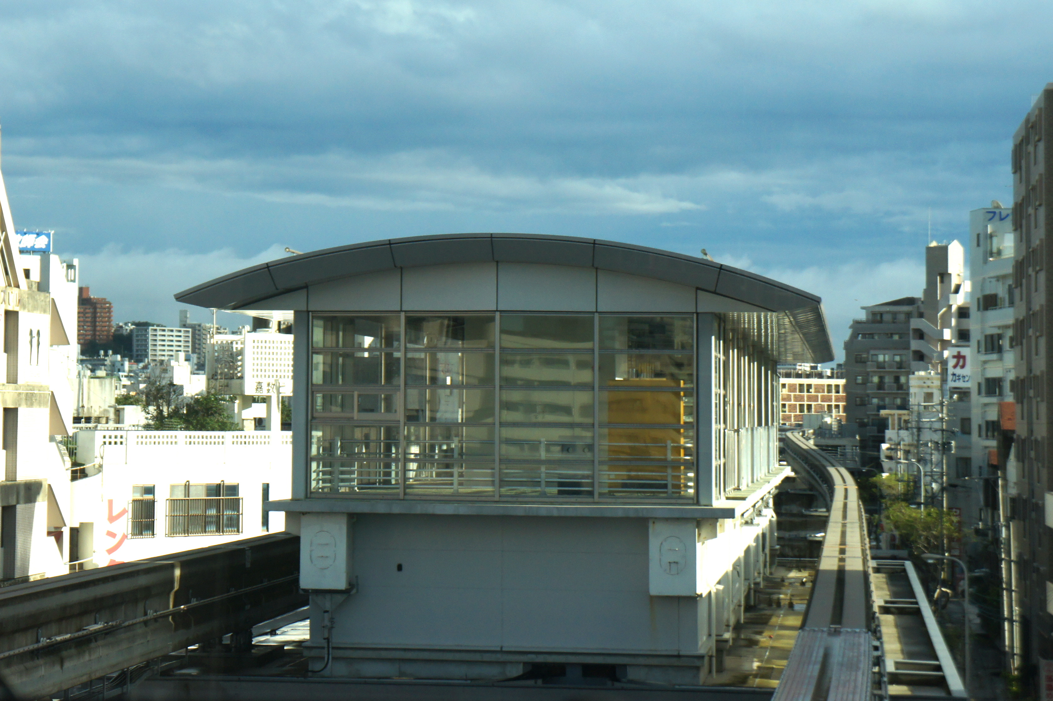 The platforms of Makishi Station, Okinawa Monorail.